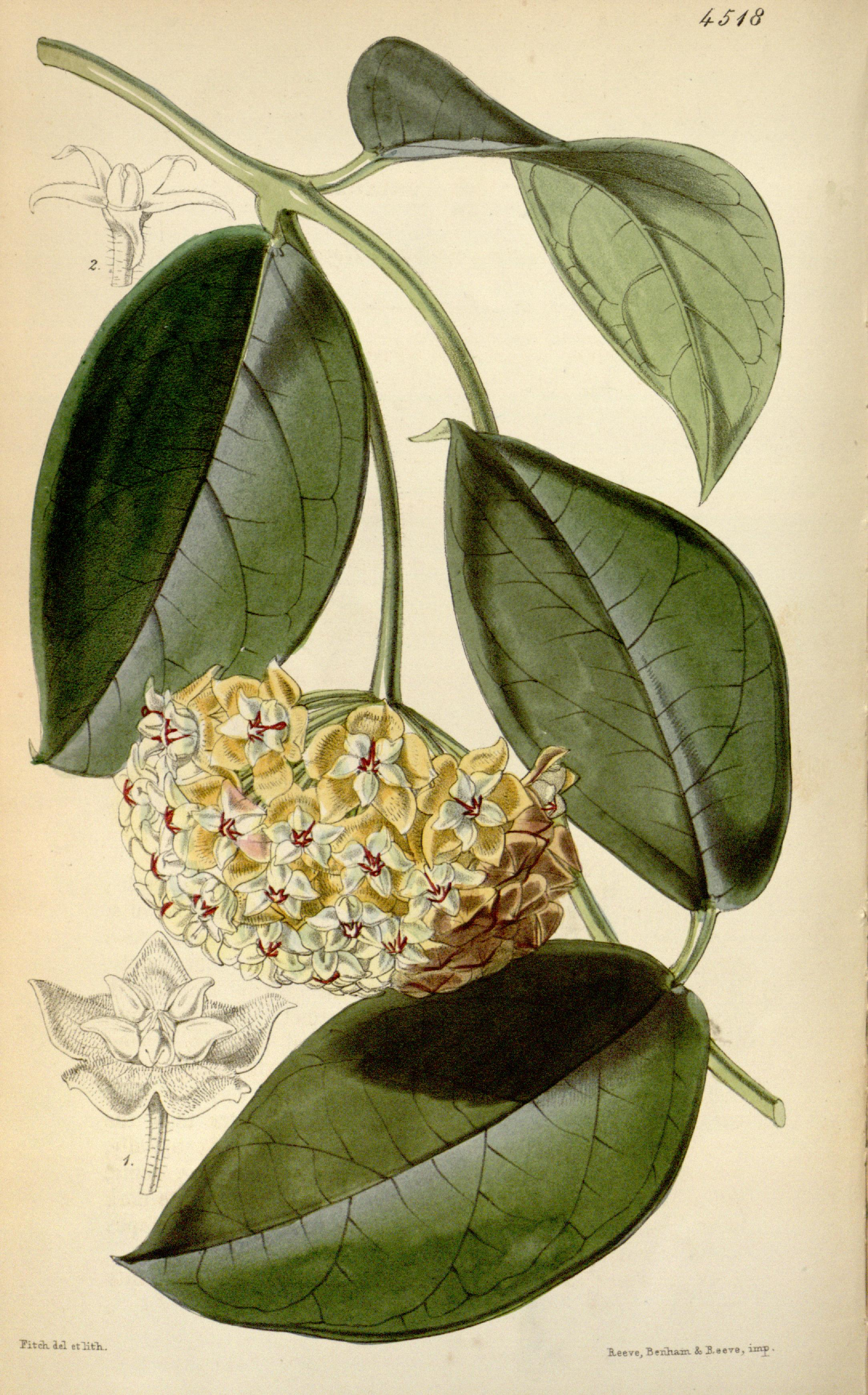 Hoya coriacea Blume, Apocynaceae, Curtis Botanical Magazine vol 76 1850 pl4518